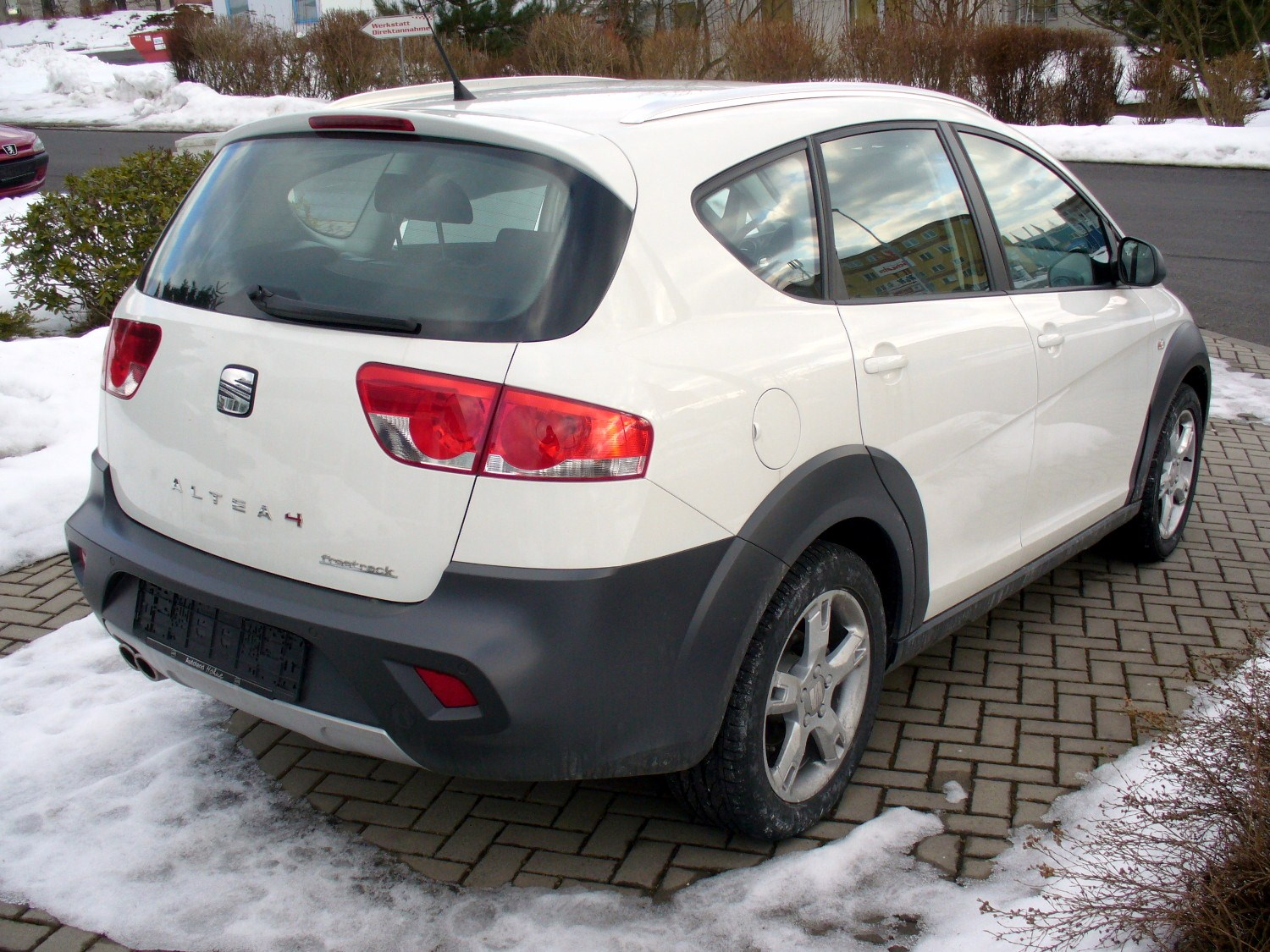 Seat Altea Freetrack